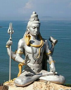 Statue of great Lord Shiva: A huge towering statue of Lord Shiva, visible from great distances, is present in the temple complex. It is the second highest statue of Lord Shiva in the world. The tallest Shiva statue is in Nepal known as the(Kailashnath Mahadev Statue). The statue is 123 feet (37 m) in height and took about two years to build. On Arabian sea coastline, western Karnataka India